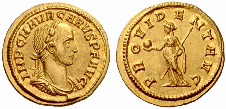 Carus, 282-283, Aureus, Ticinum 282-283, AV 4.75 g. IMP C M AVR CARVS P F AVG Laureate, draped and cuirassed bust r. Rev. PROVIDENT AVG Providentia standing l., holding globe and transverse sceptre. Calicó 4271 (this coin). C 66. RIC 62.